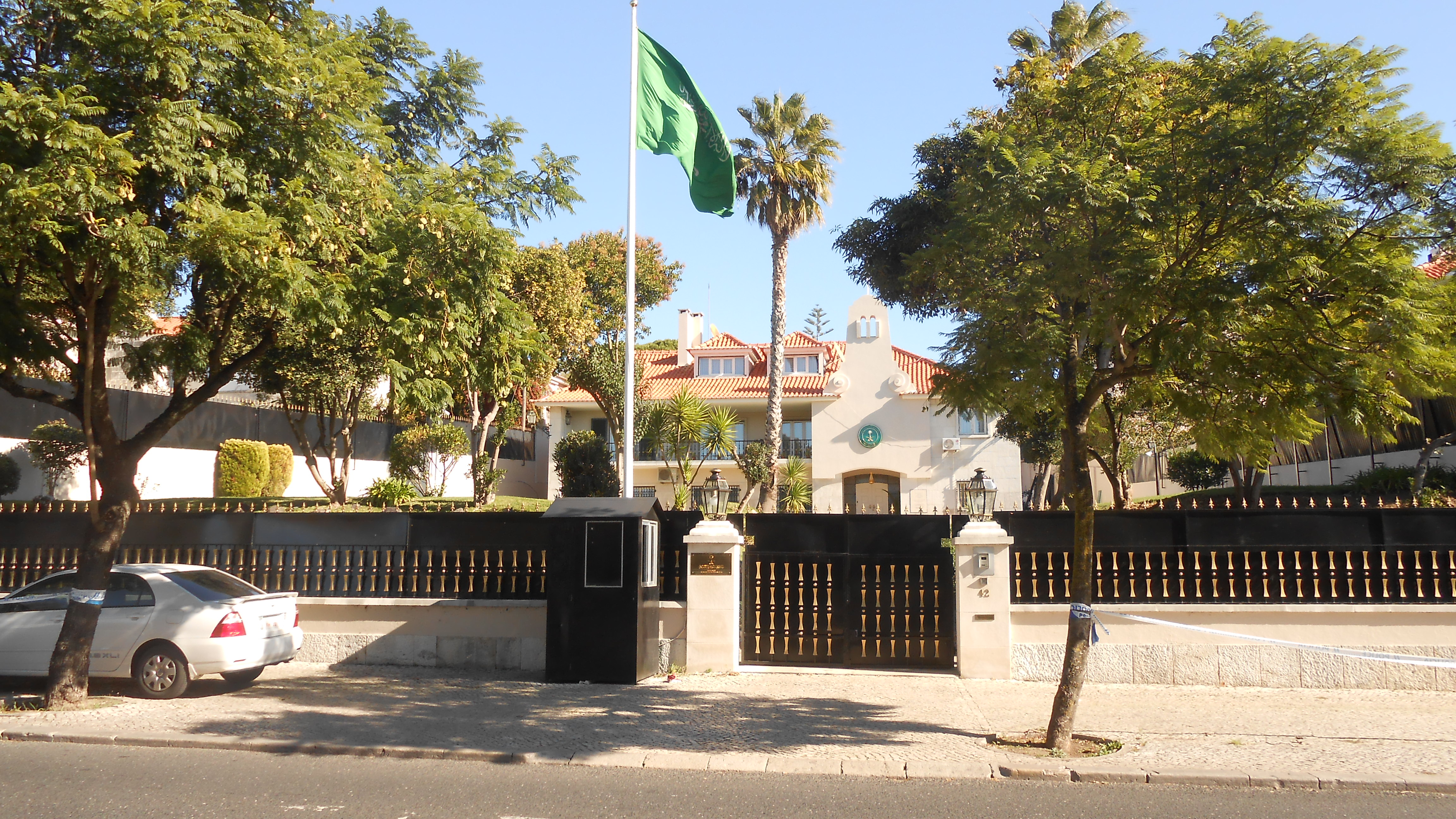 The embassy of Saudi Arabia in Lisbon.